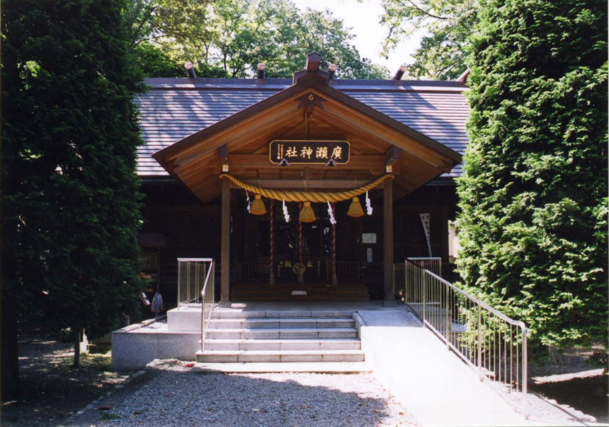 Hirose jinja shrine(Hirose,Sayama-shi,SAITAMA,Japan)